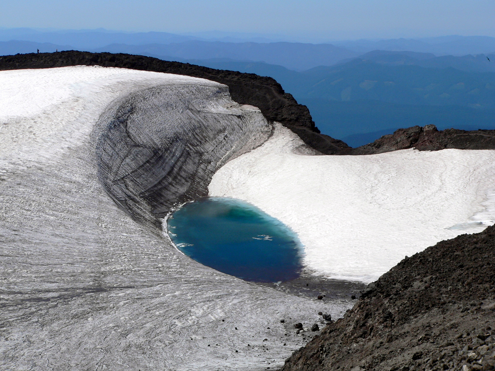 Teardrop Lake is a crater lake in the South Sister volcano. It is also the highest lake in Oregon, above 10,300 feet (3,100 m) of elevation